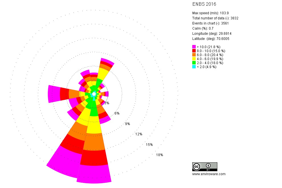 Wind rose showing distribution of wind speed and direction for Båtsfjord Airport for the year 2016.